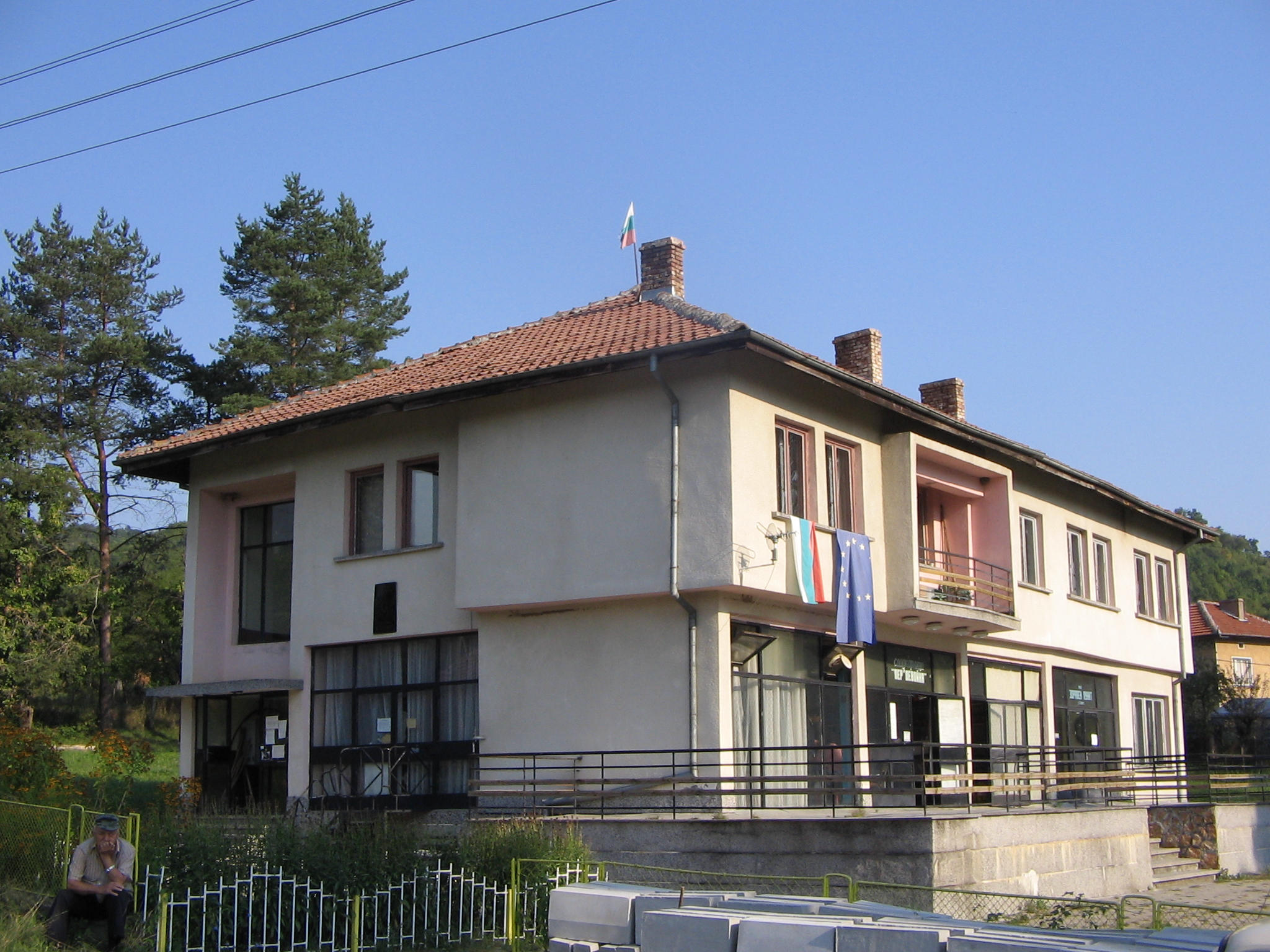 Mayors' office in village Sopot, Bulgaria